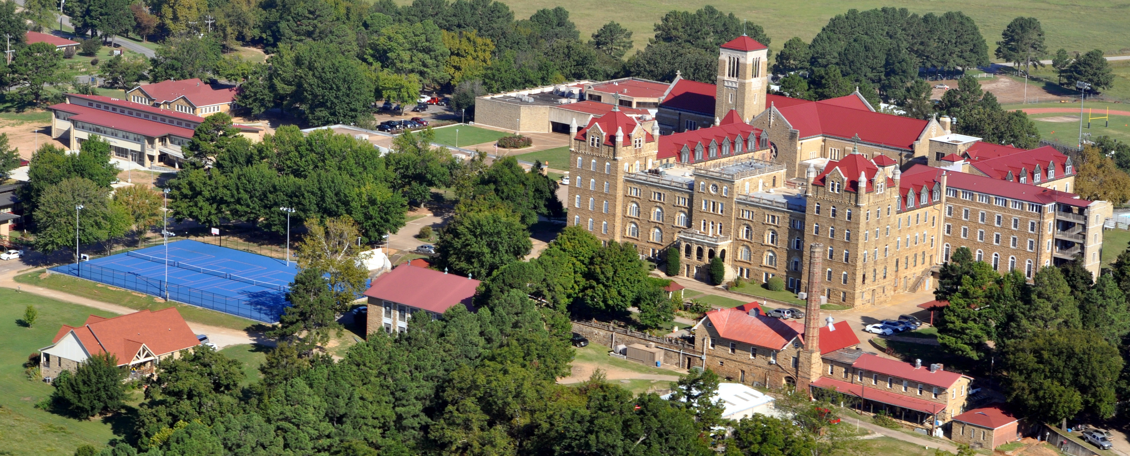 A bird's eye view of the hill.